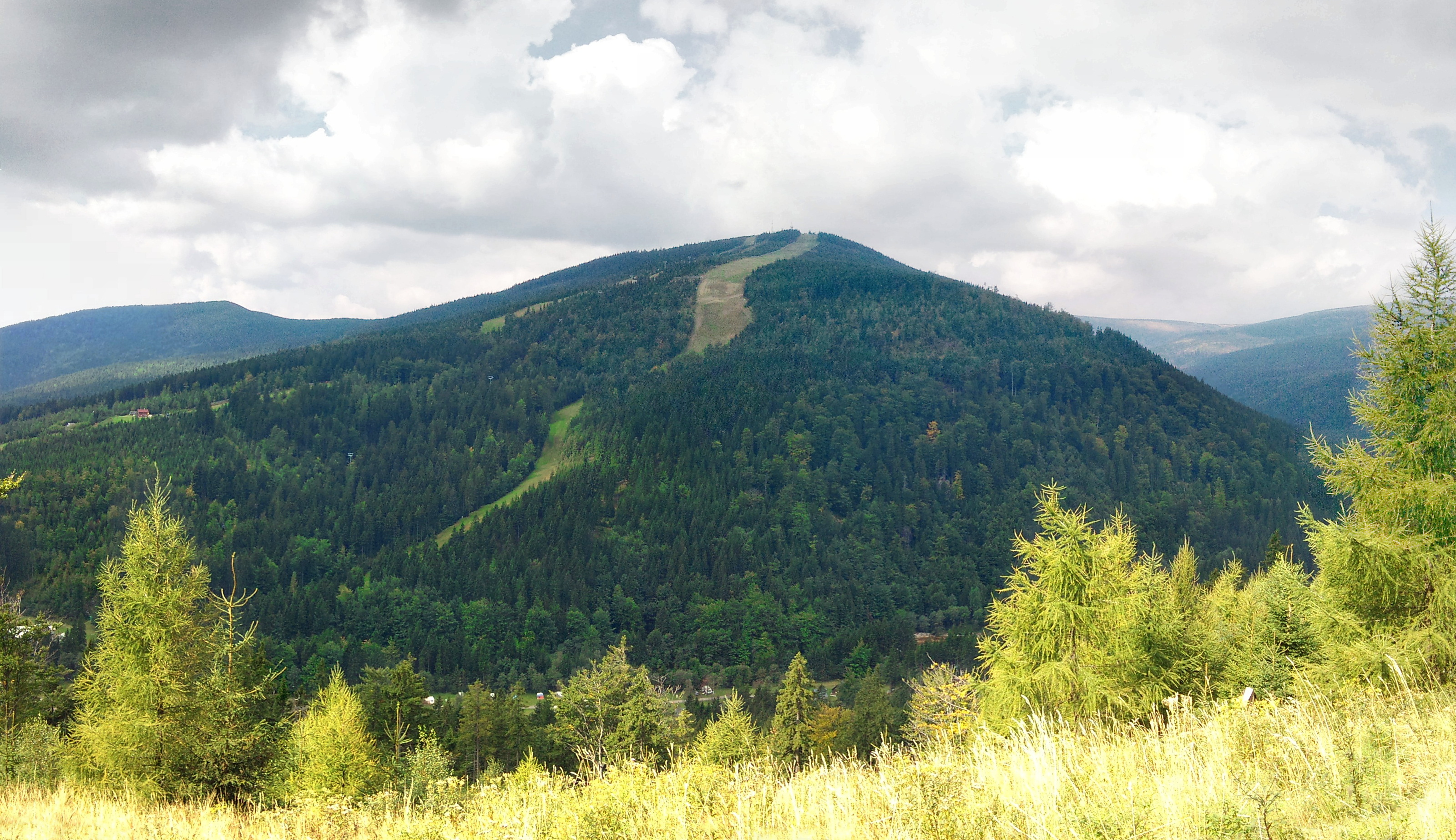 Medvědín in the Krkonoše Mountains